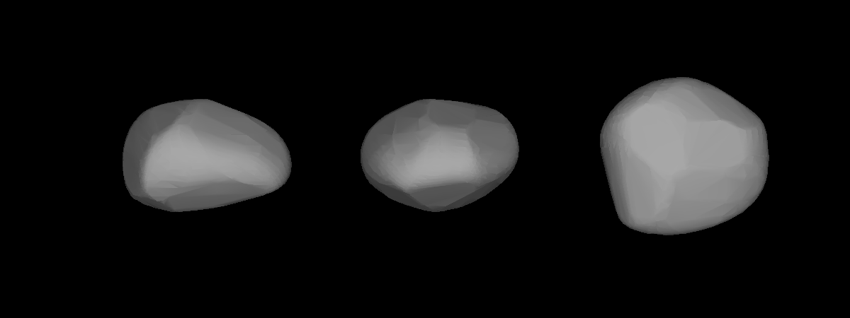 A three-dimensional model of 110 Lydia that was computed using light curve inversion techniques.